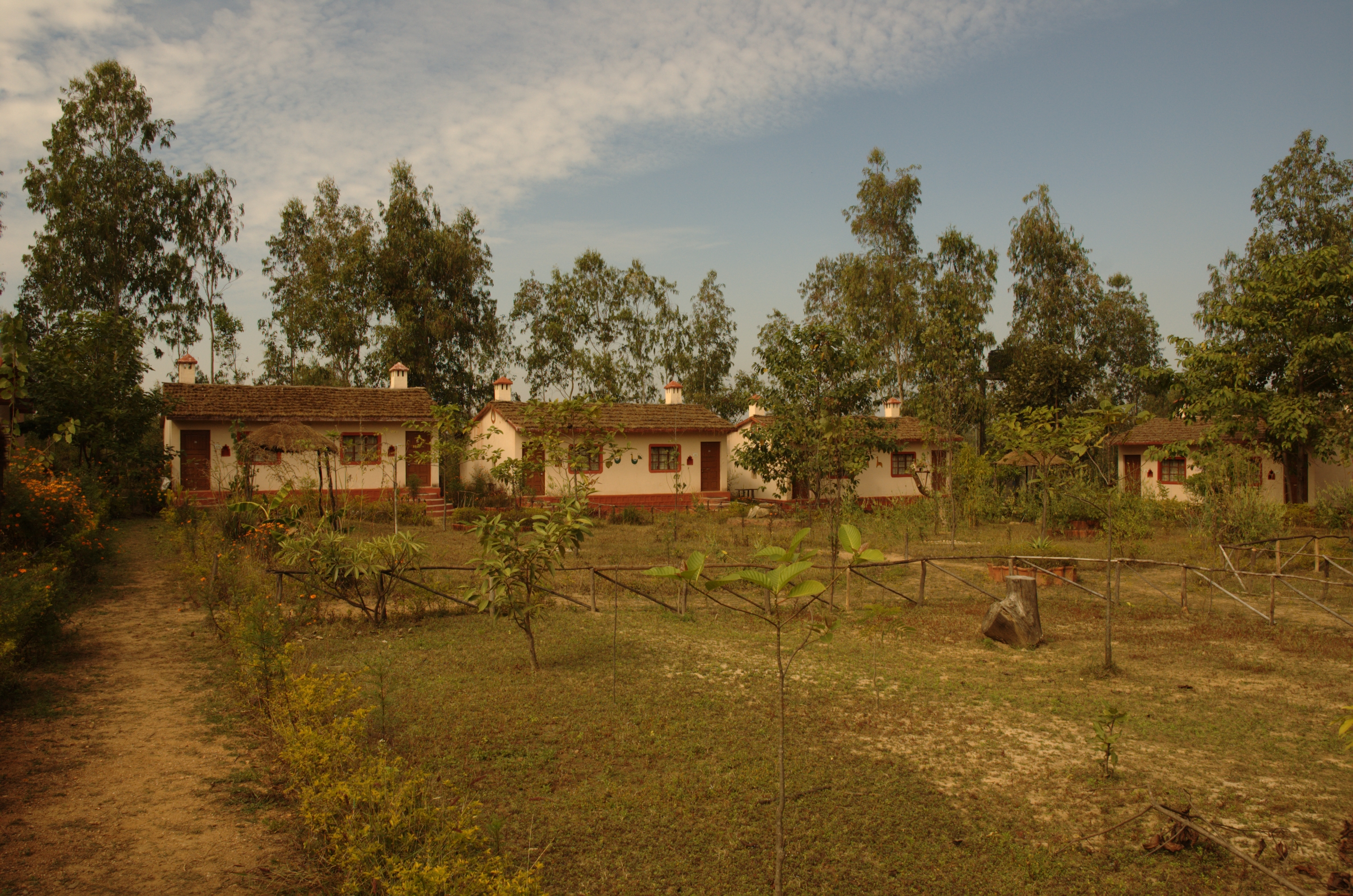 Pug Mark resort near Kanha National Park.